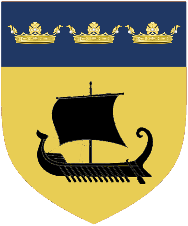 Shield of arms of The Lord Nunburnholme